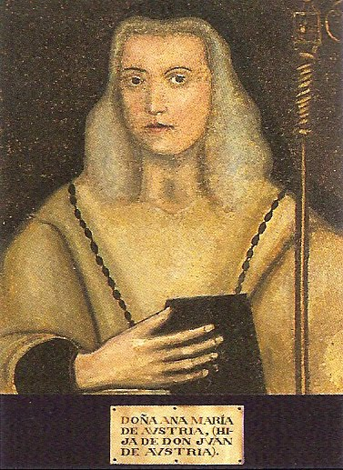 Maria Ana de Austria